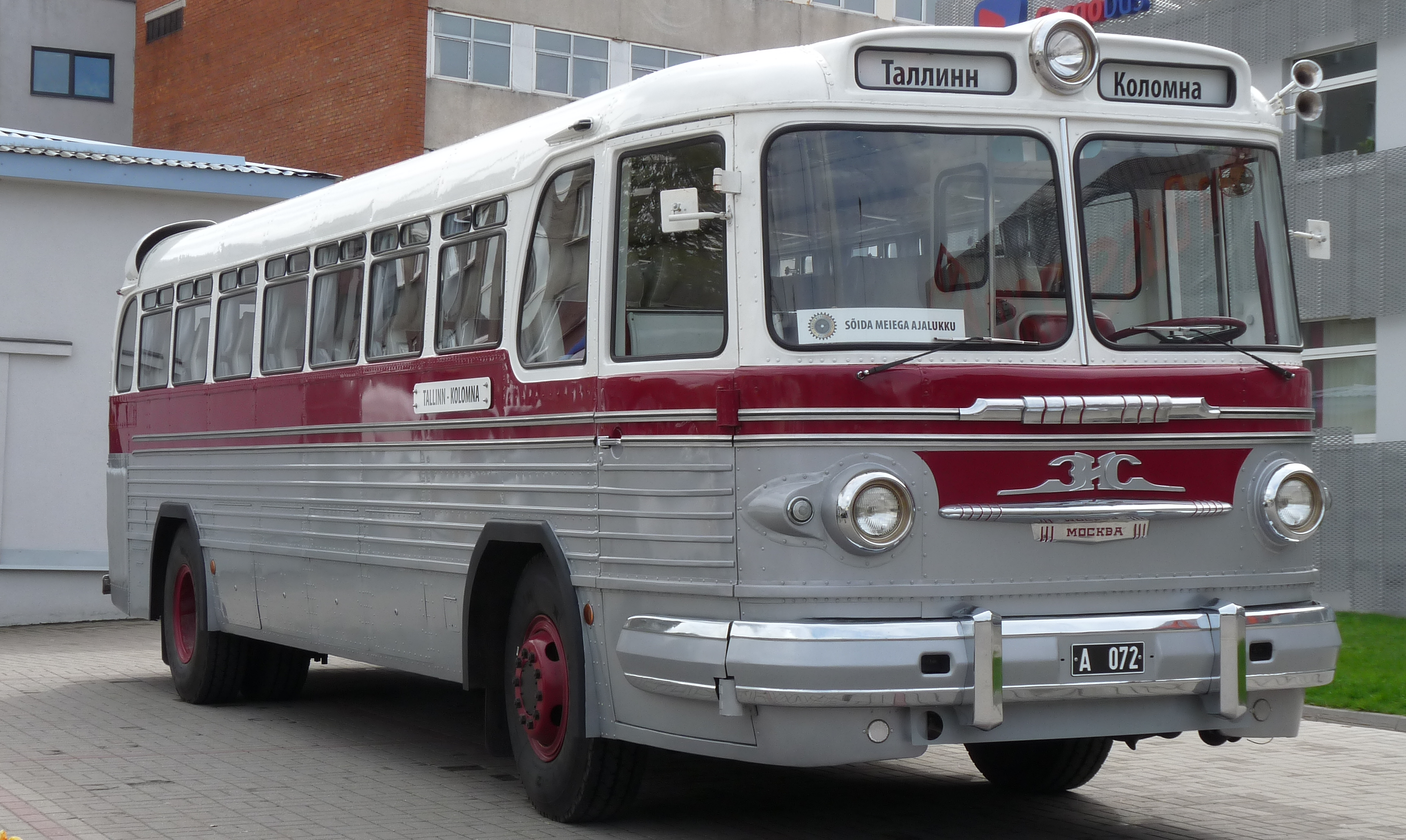 ZiS-127 in Tallinn, Estonia